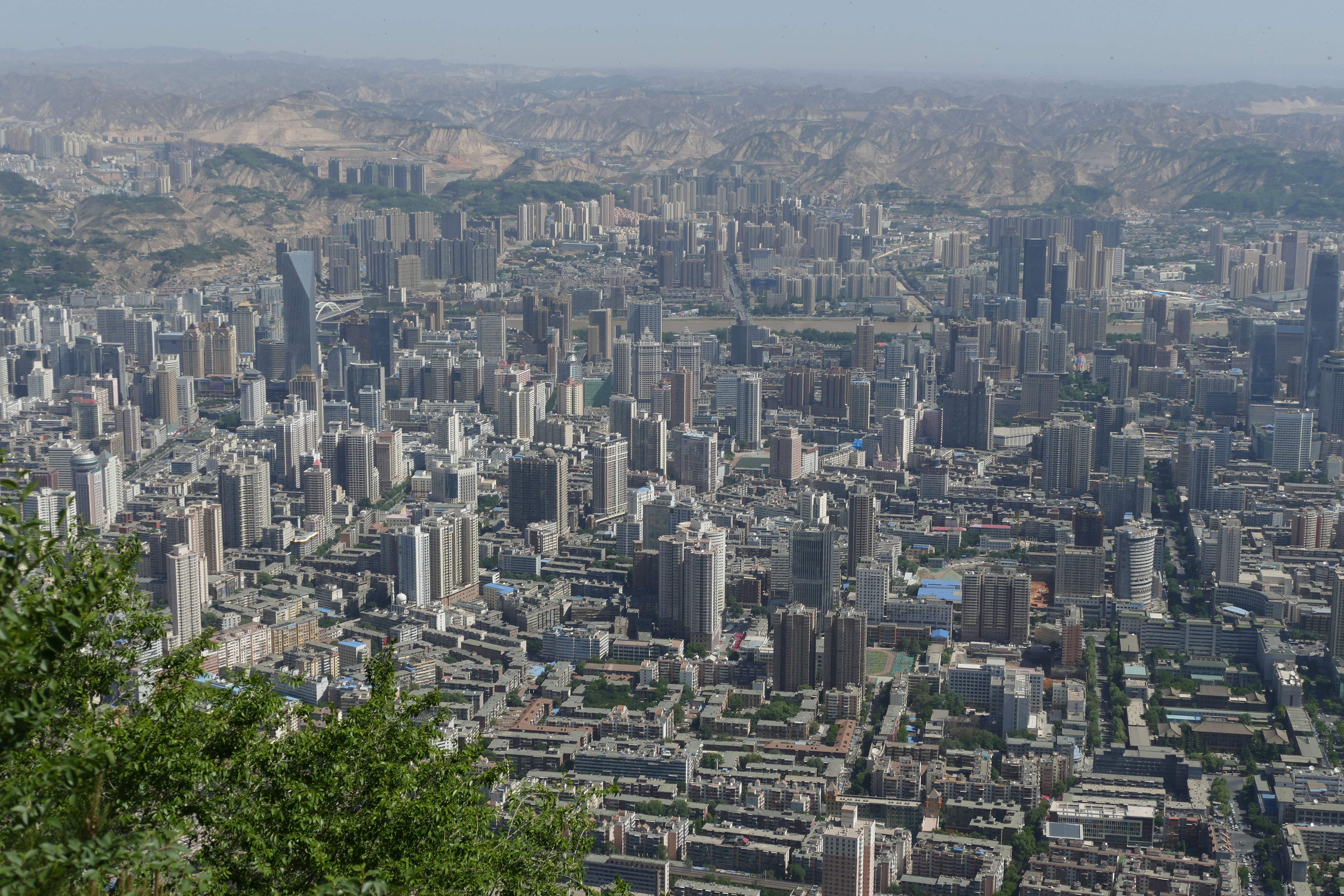 View of Lanzhou from Gaolanshan